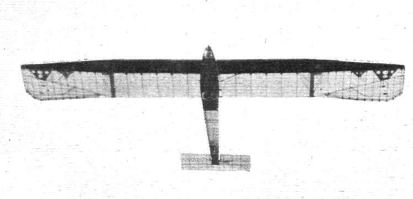 The 1922 version of the Vampyr